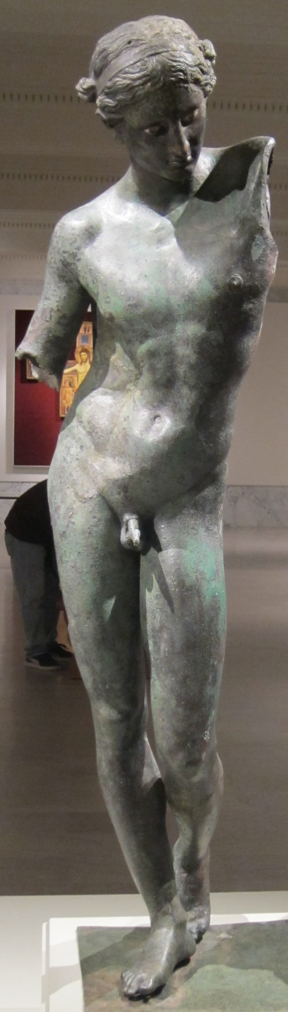 Apollo Sauroktonos (Lizard-slayer) attributed to Praxiteles, c. 350-275 BCE, bronze, copper and stone inlay, Cleveland Museum of Art